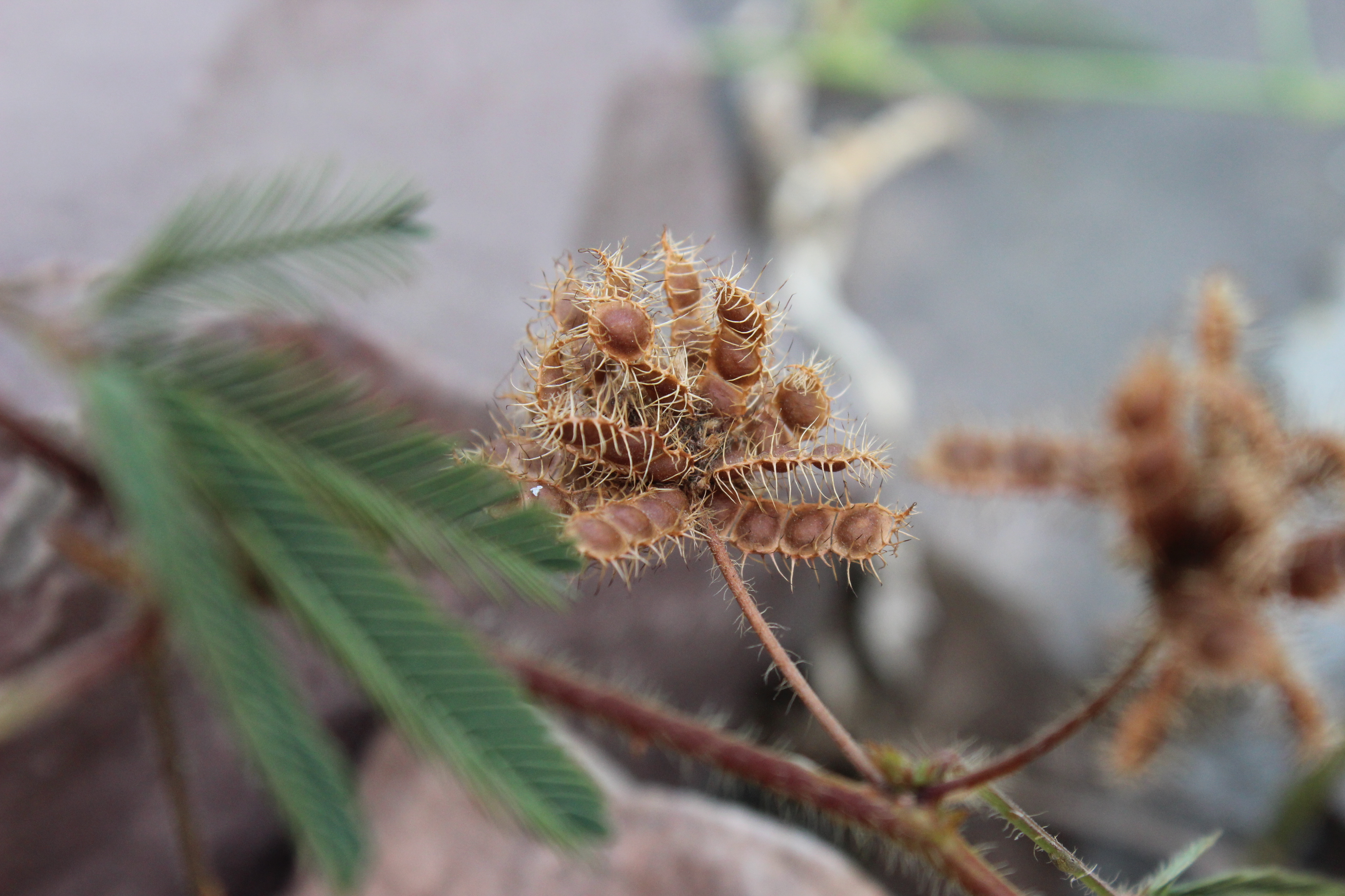 Mimosa pudica seeds in Bhopal